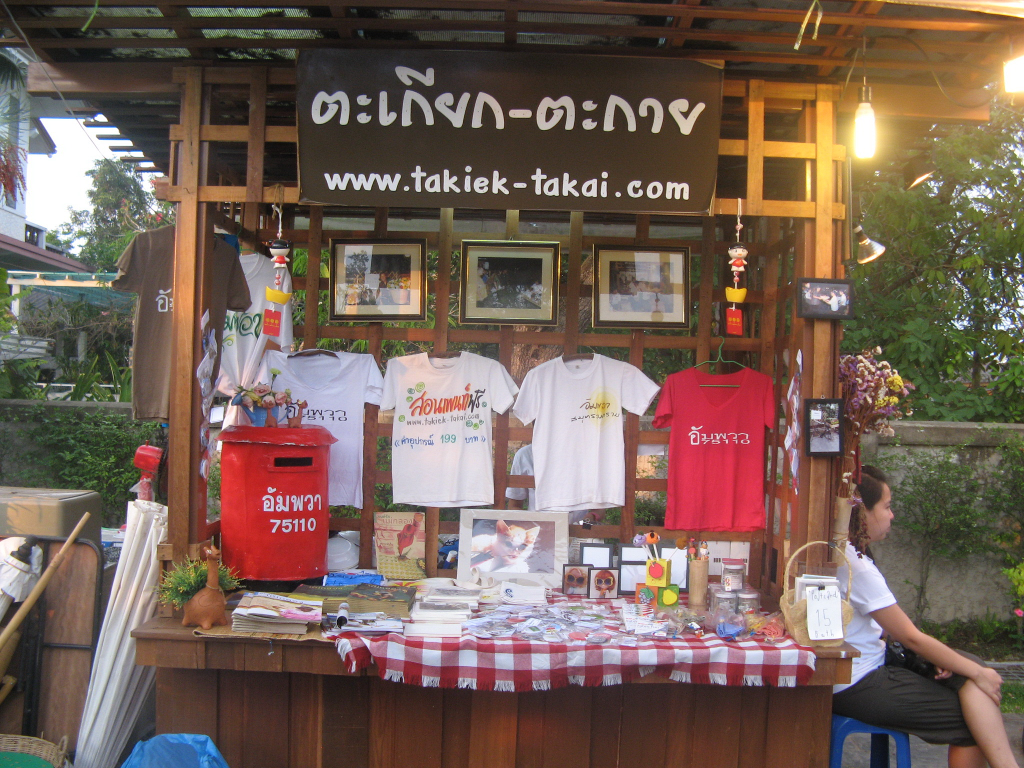 T-shirt